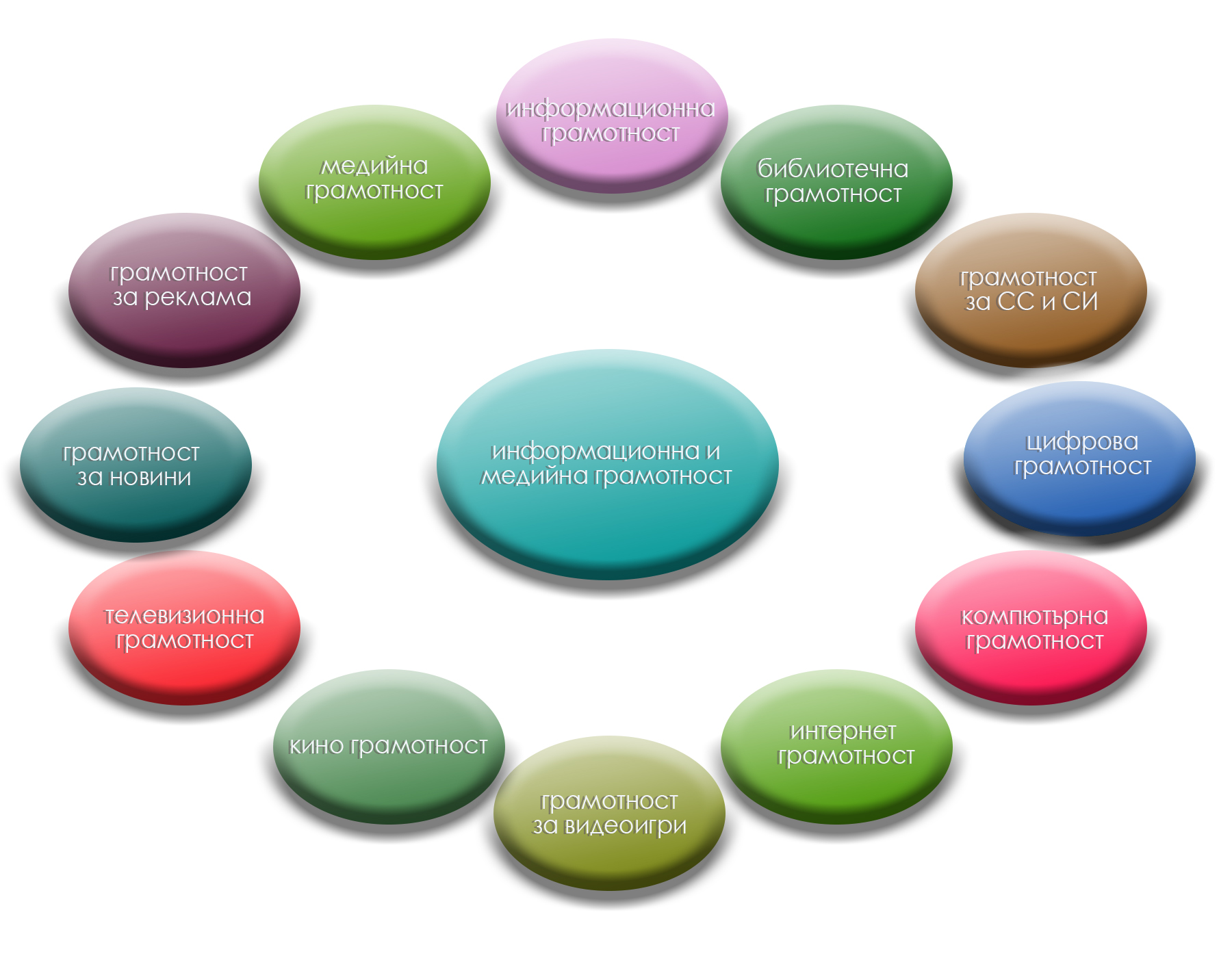 Екология на медийната и информационната грамотност из наръчника Media and information literacy curriculum for teachers на UNESCO - инфографика, адаптирана на български език